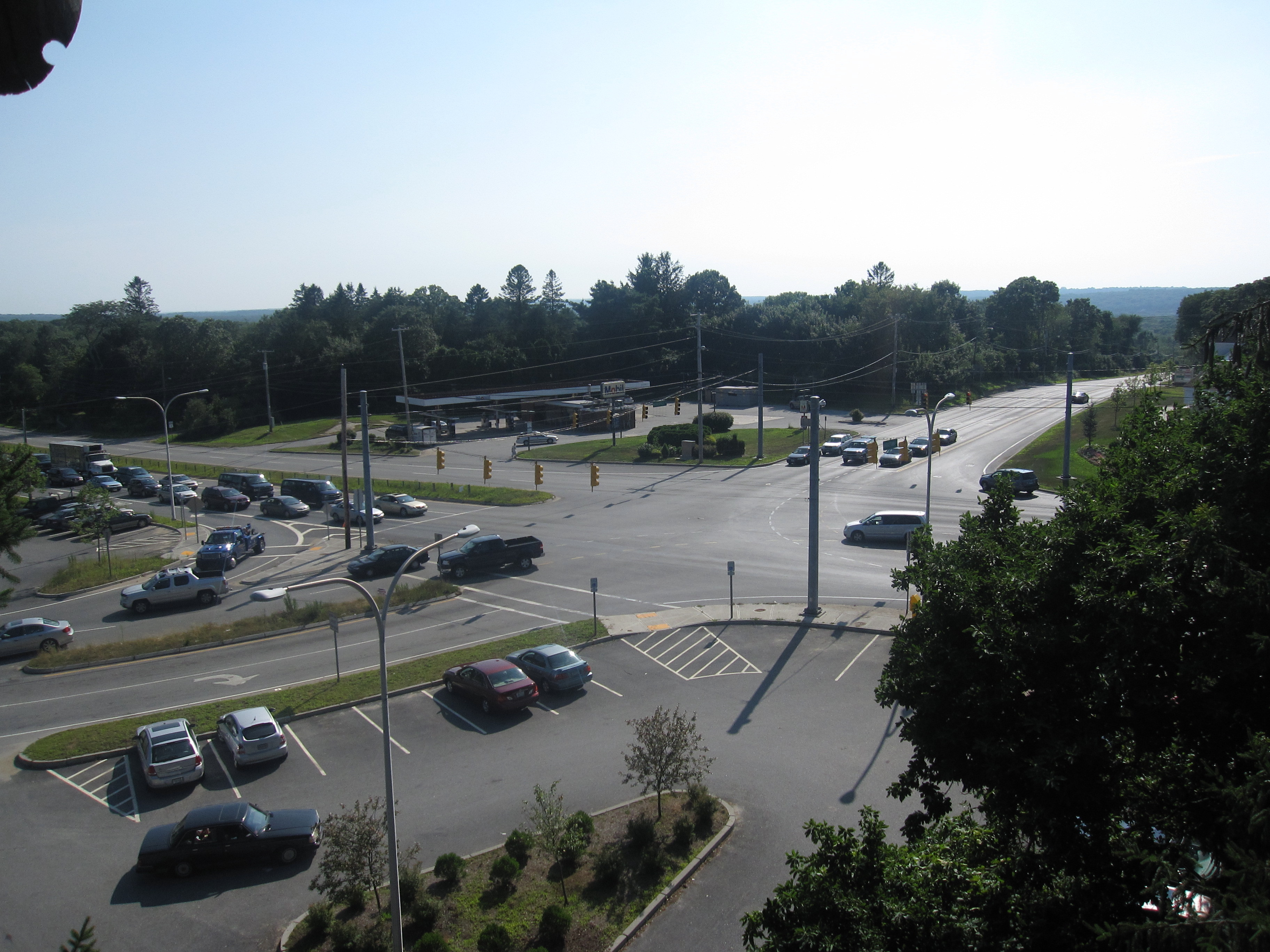 View of the intersection of U.S. Route 1, Rhode Island Route 138 and Bridgetown Road in South Kingstown, RI from the Hannah Robinson Tower